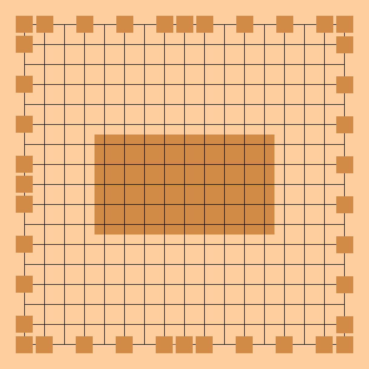 transparent colored "secret meeting room", opaque colored "sanctuaries", using ProjChess colors